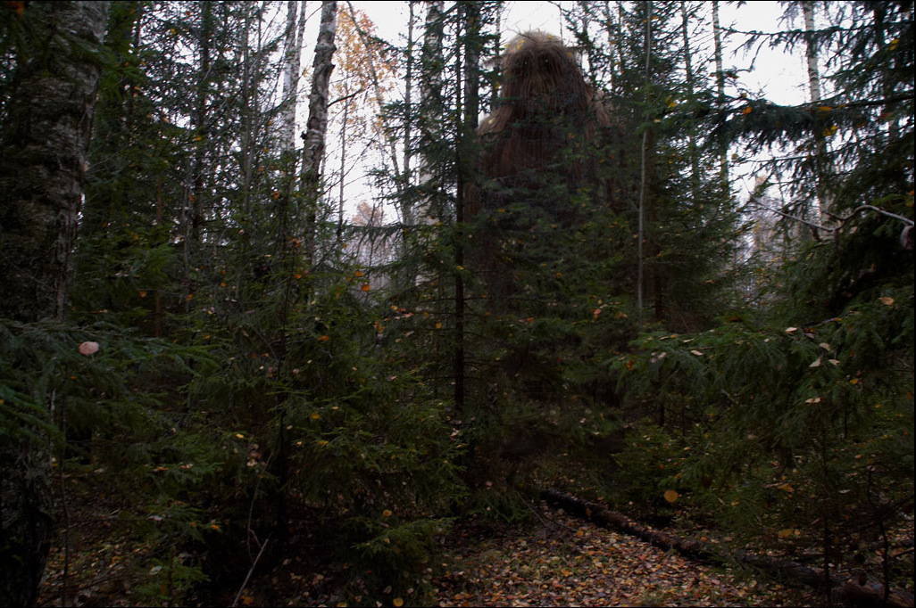 Leshy in Russia